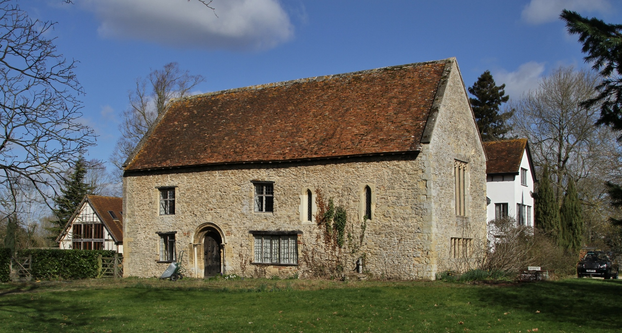 The Norman Hall, Church Street, Sutton Courtenay, Oxfordshire (formerly Berkshire), seen from the south